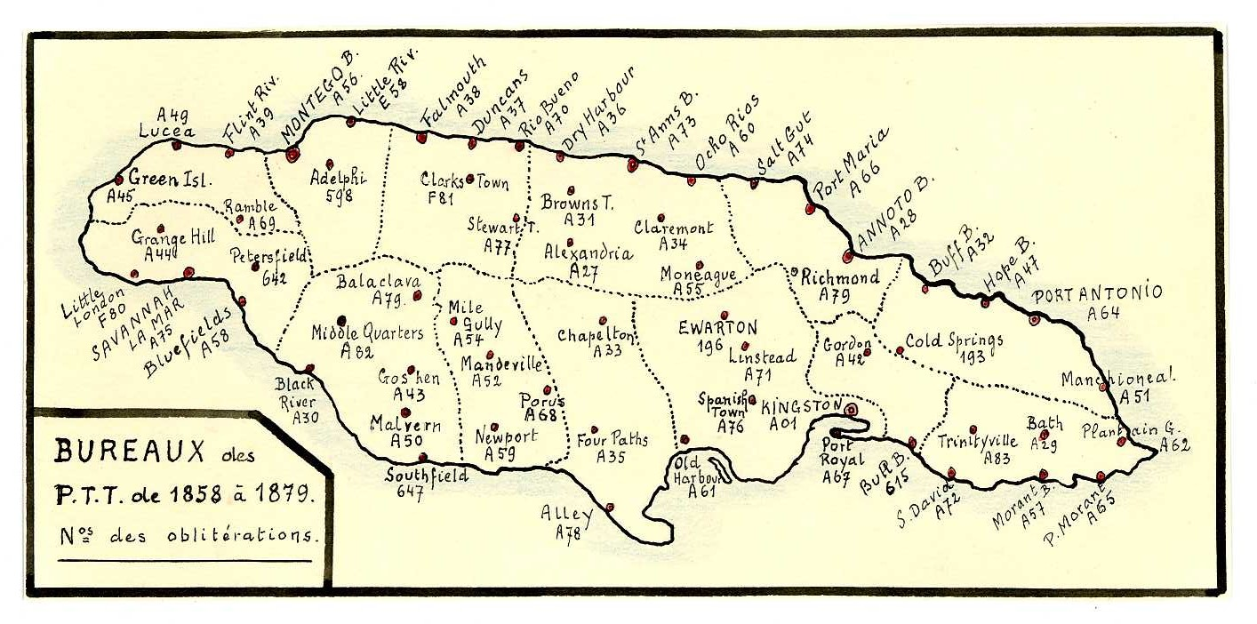 Hand made map of Jamaica, with post offices and numeral postmarks in used before 1879.